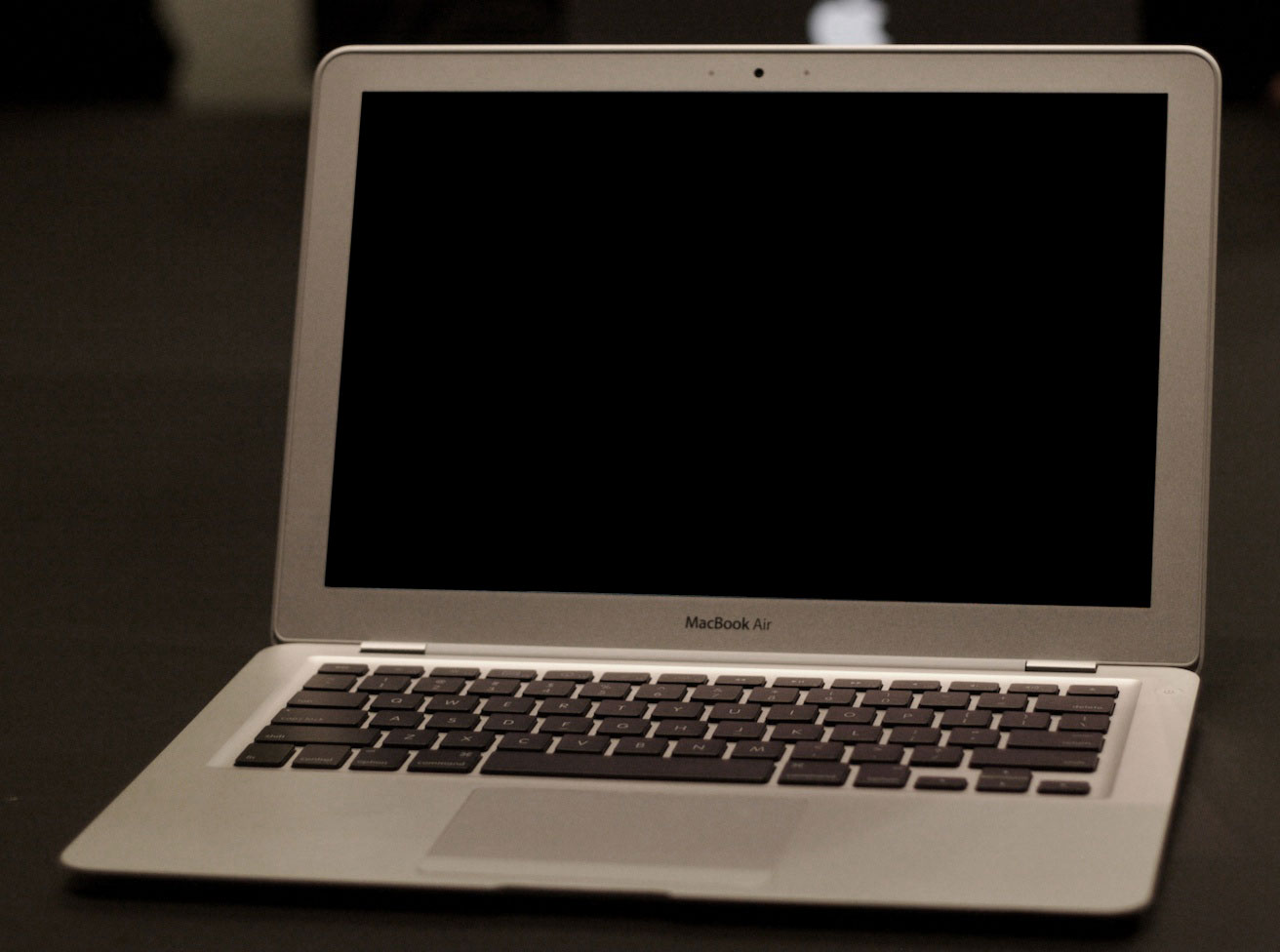 MacBook Air